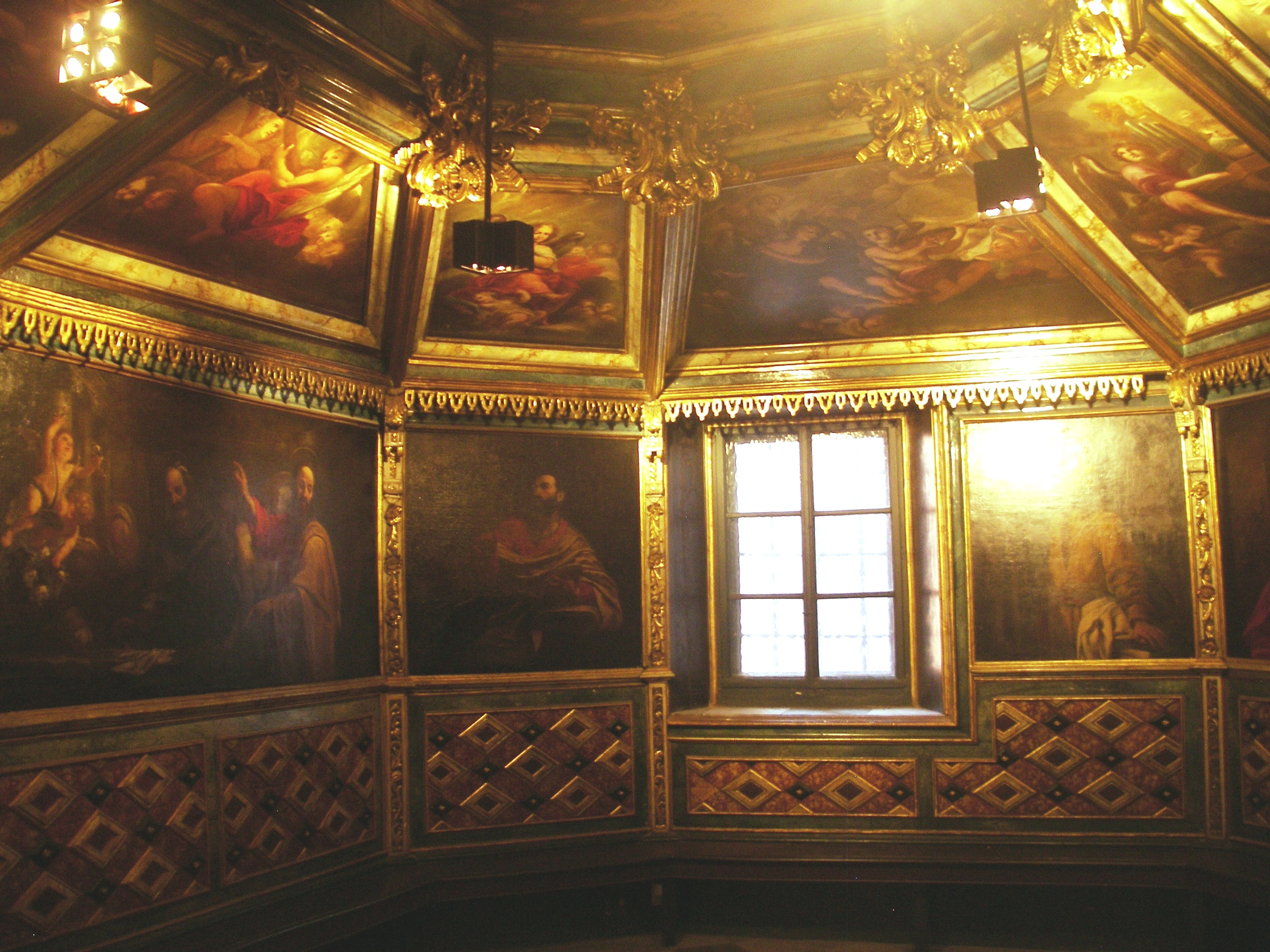 Pintures d'Antoni Viladomat a la Sala de Juntes de la Confraria dels Dolors, a la Basílica de Santa Maria de Mataró